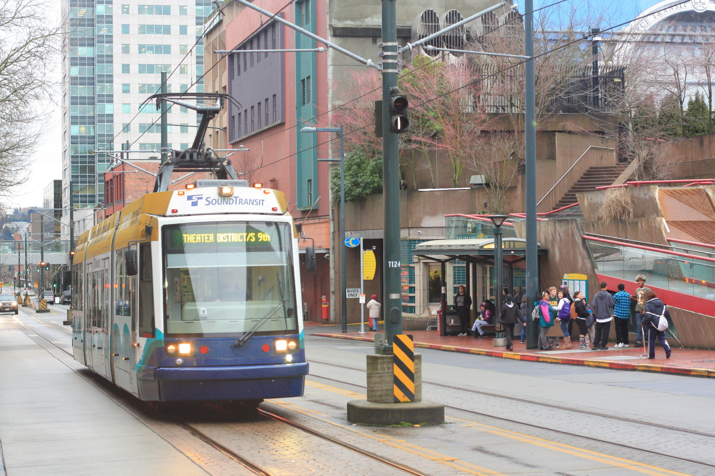 Tacoma Link car 1002 passes northbound through Pierce Transit’s Commerce Street boarding zones on 6 January 2011.